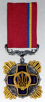 Ukrainian National Award - the order "For Merit" (2nd degree)